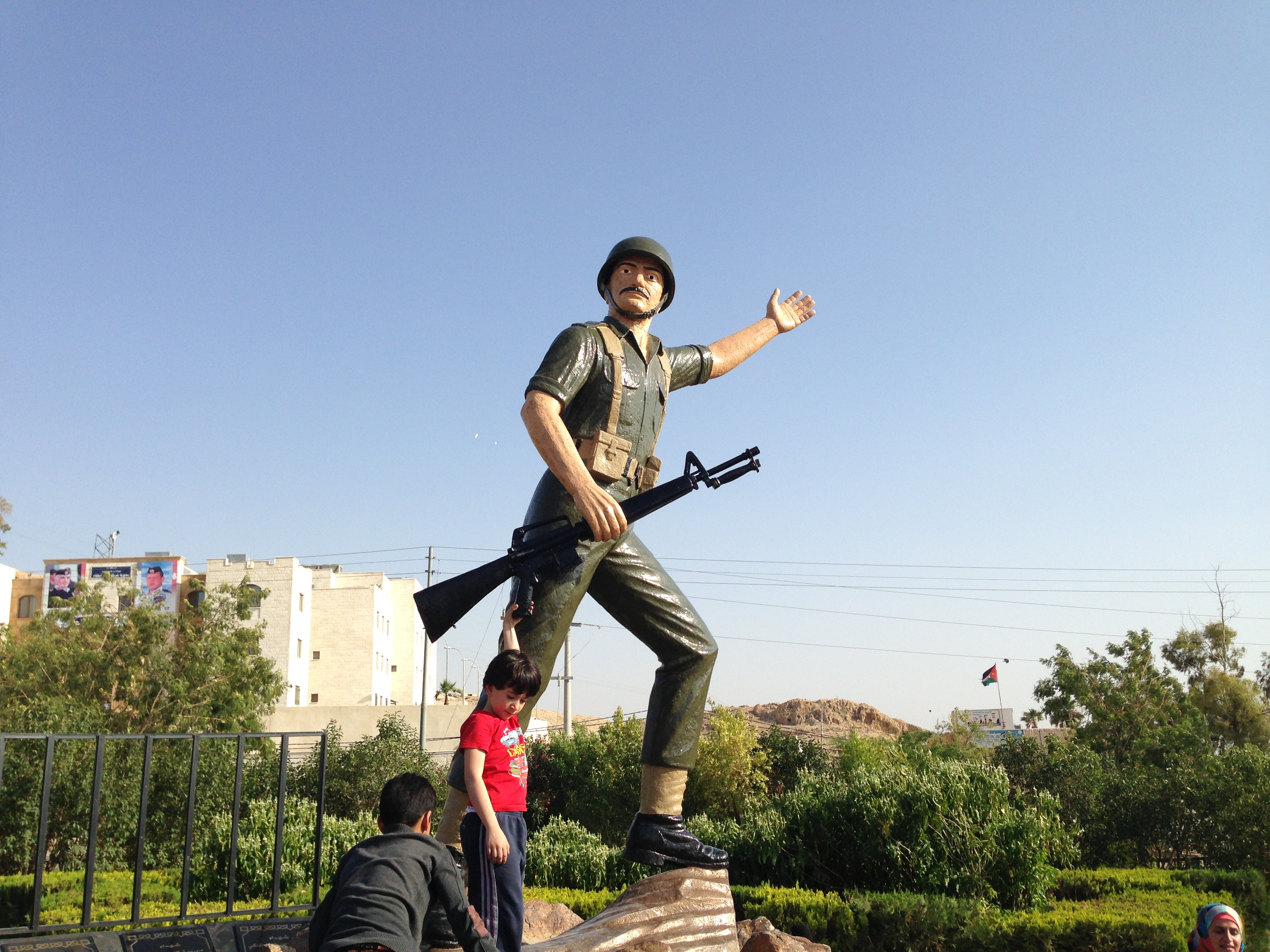 Tomb of the Unknown Soldier in southern Shoneh, Jordan Valley, Jordan (Battle of Karameh)